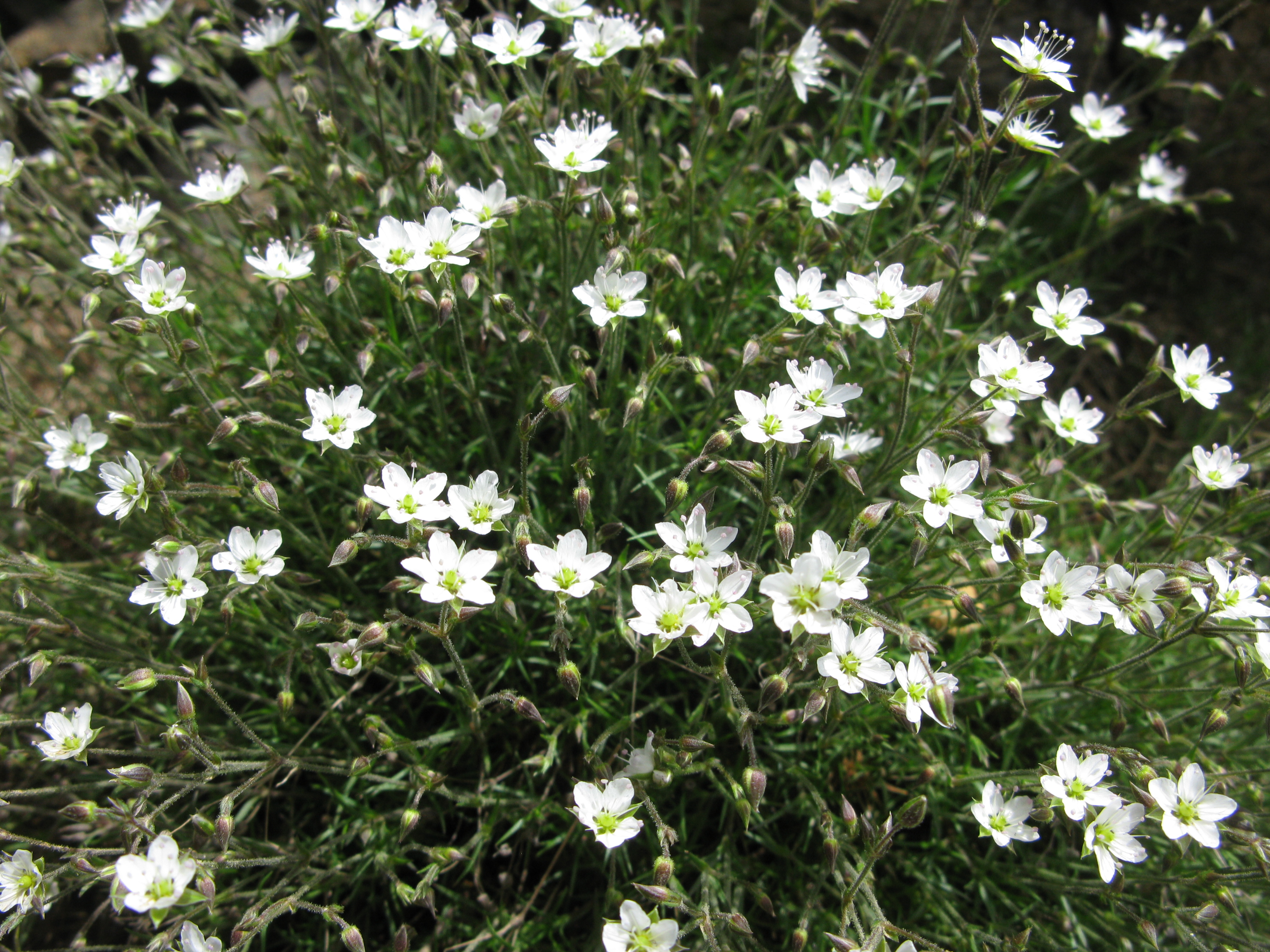 Minuartia verna var. japonica, Mount Shibutsu, Gunma pref., Japan